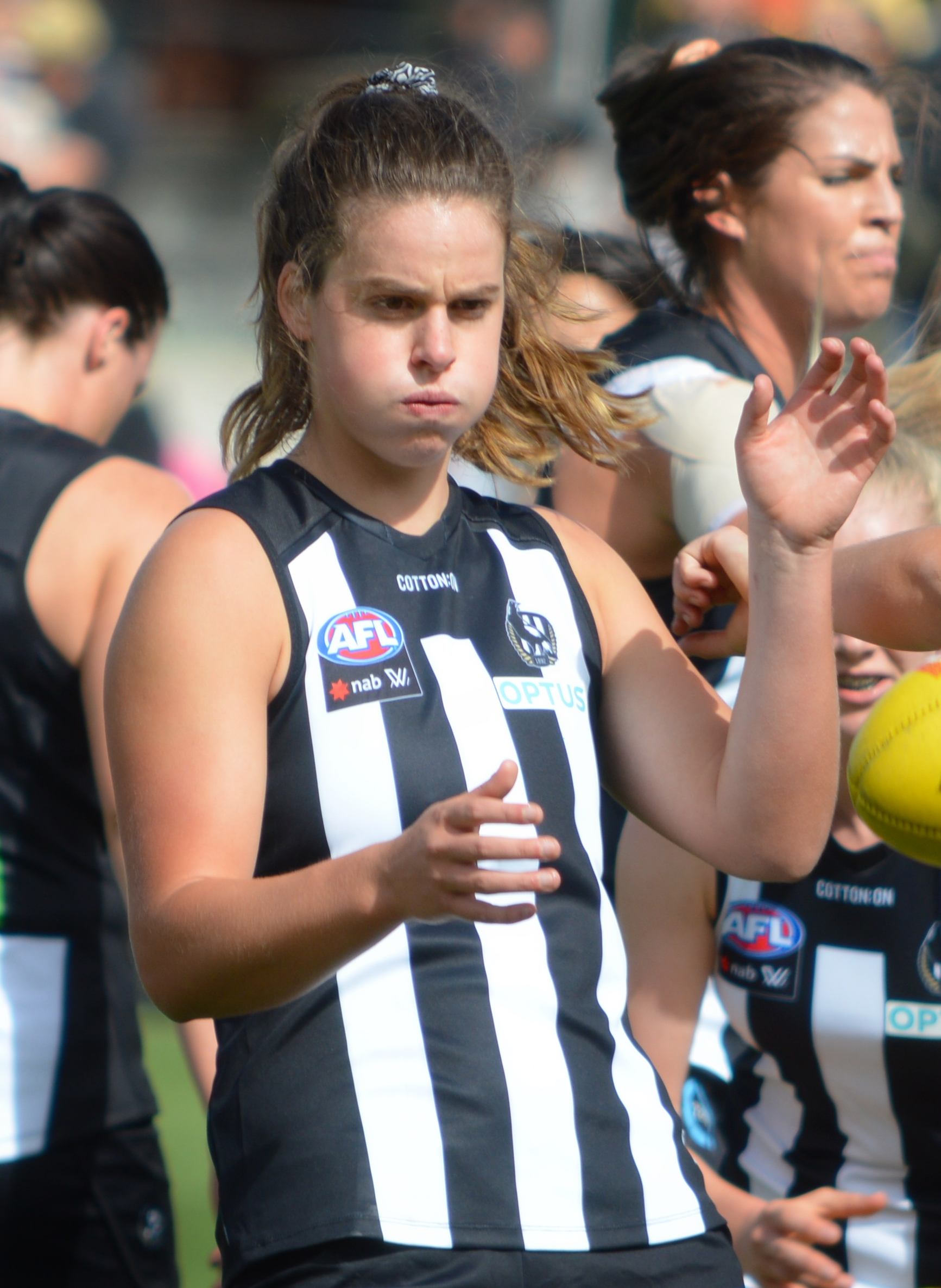 Katie Lynch with Collingwood during a match against Melbourne at Victoria Park in round 2 of the 2019 AFL Women's season.